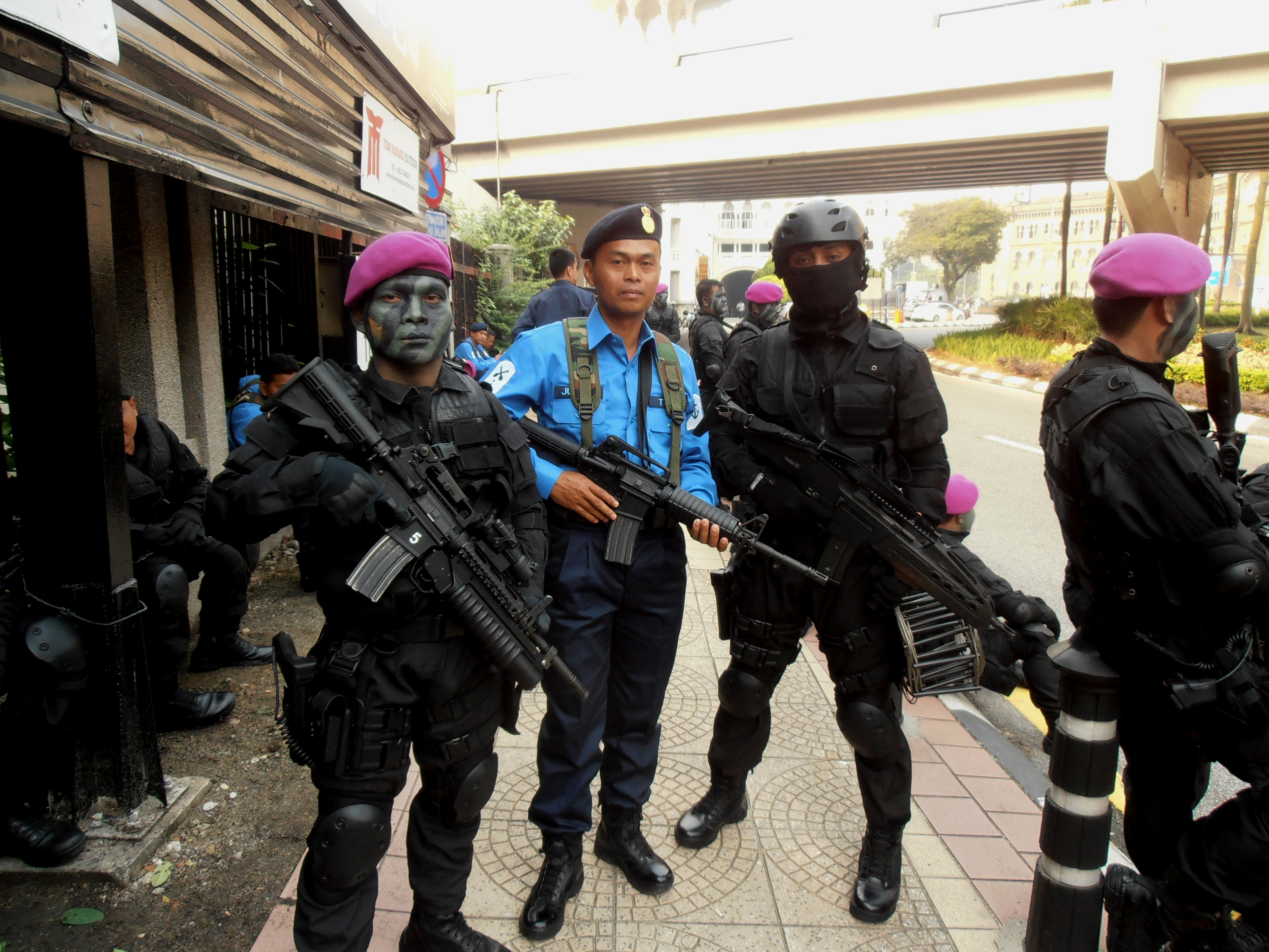 Sailor from Royal Malaysian Navy holding his M4A1 Carbine with two PASKAL commandos in full gear with American M4A1 SOPMOD and German XM8 during the 2015 Merdeka Day in Kuala Lumpur.